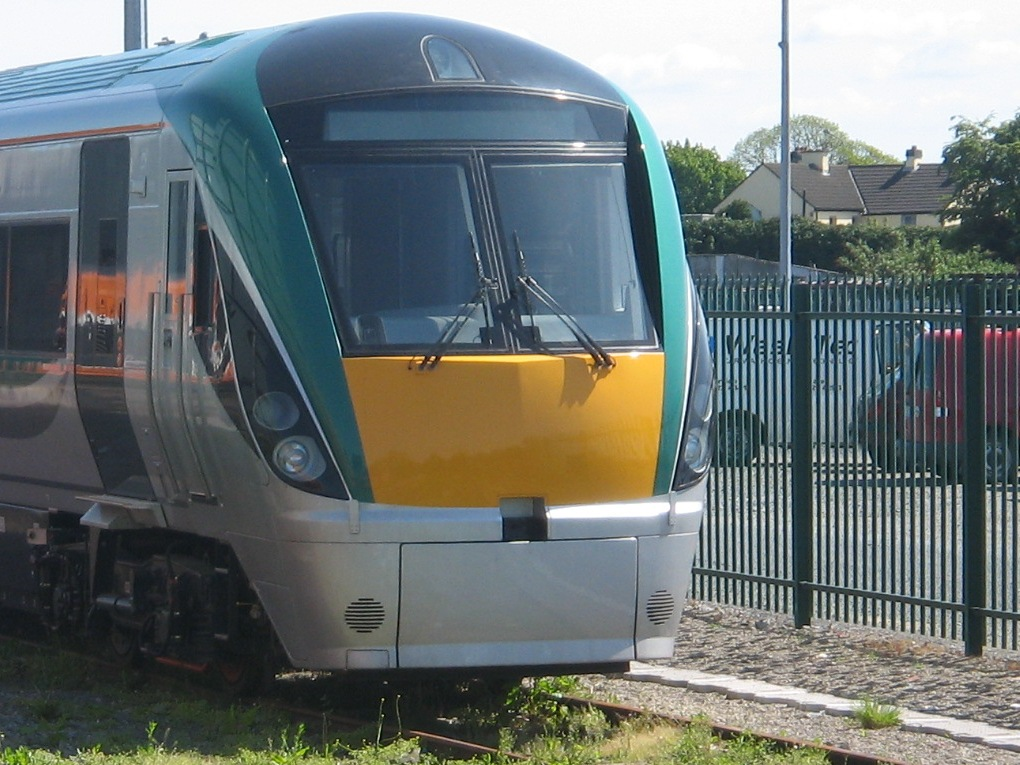 An Iarnrod Éireann Class 22000 diesel multiple unit at Colbert Station, Limerick